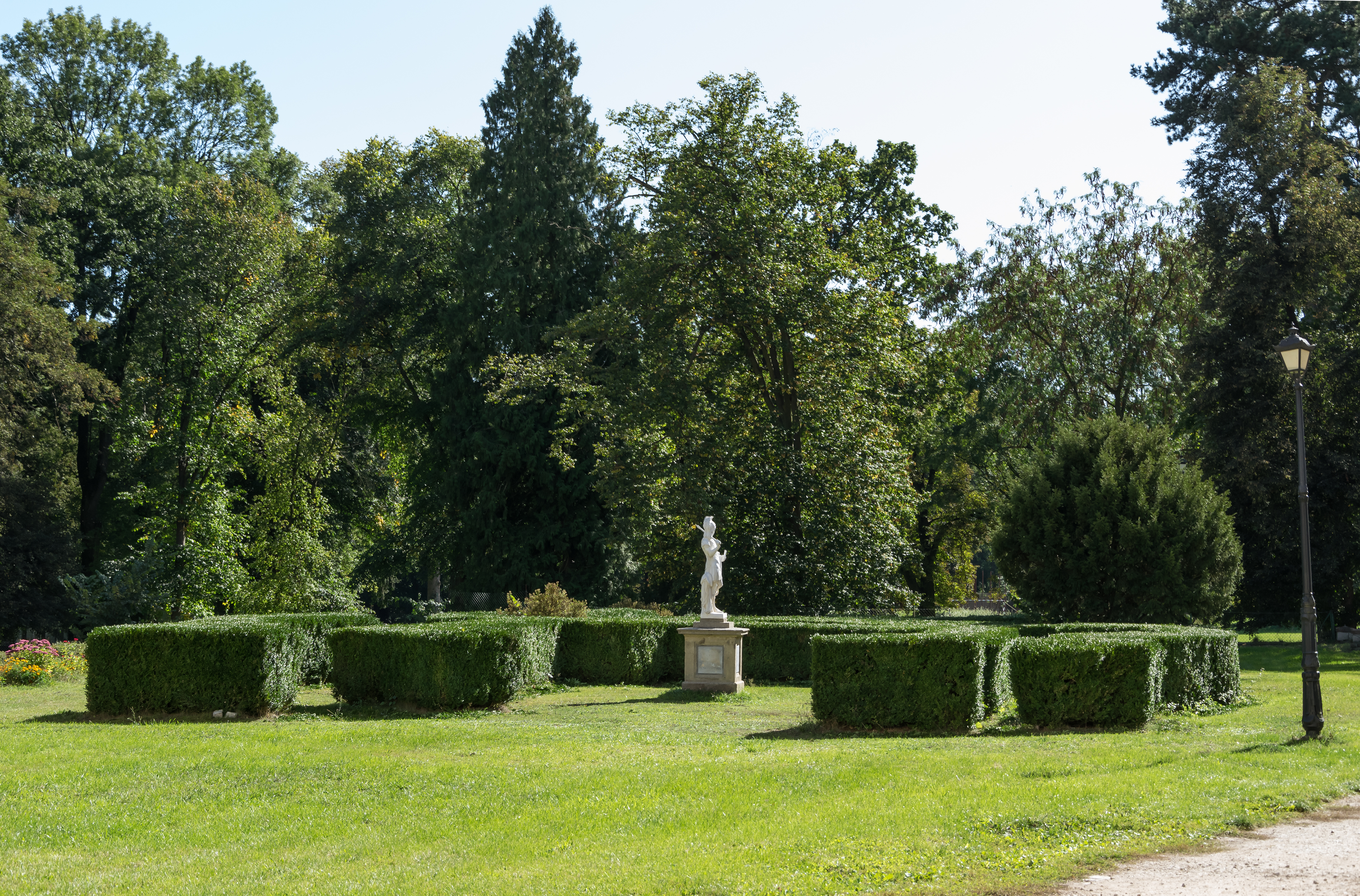 Garden in Henryków